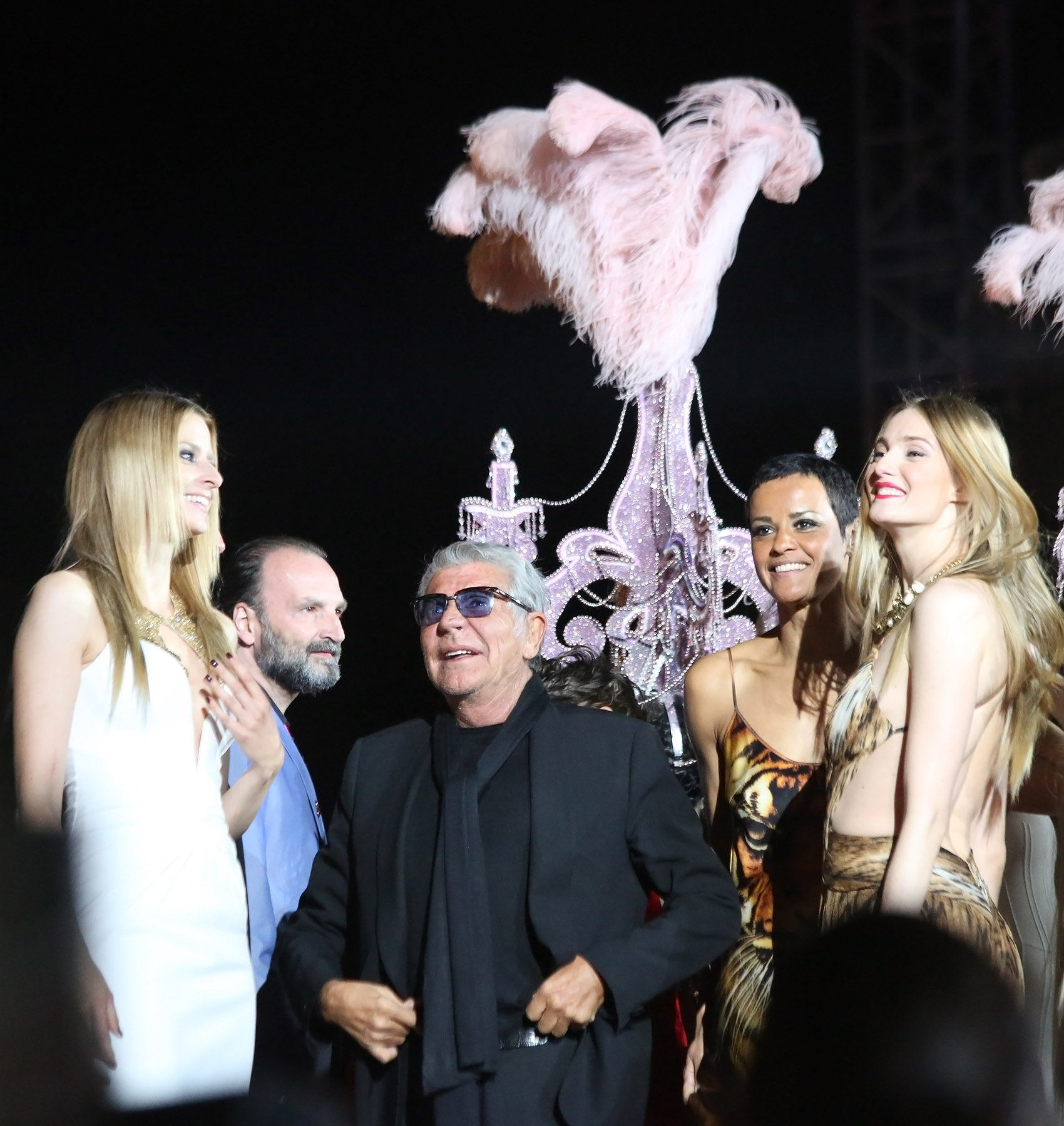 Eva Padberg, Eva Riccobono, Nadège du Bospertus, fashion show by Roberto Cavalli, opening of Life Ball 2013 at the city hall of Vienna, Vienna, Austria.